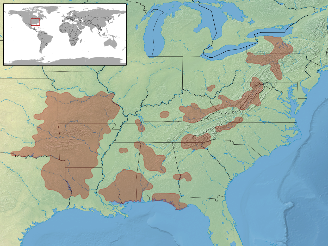 geographic distribution of Plestiodon anthracinus